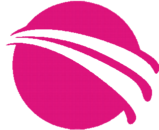 Logo of Guangzhou Yitong Bus.